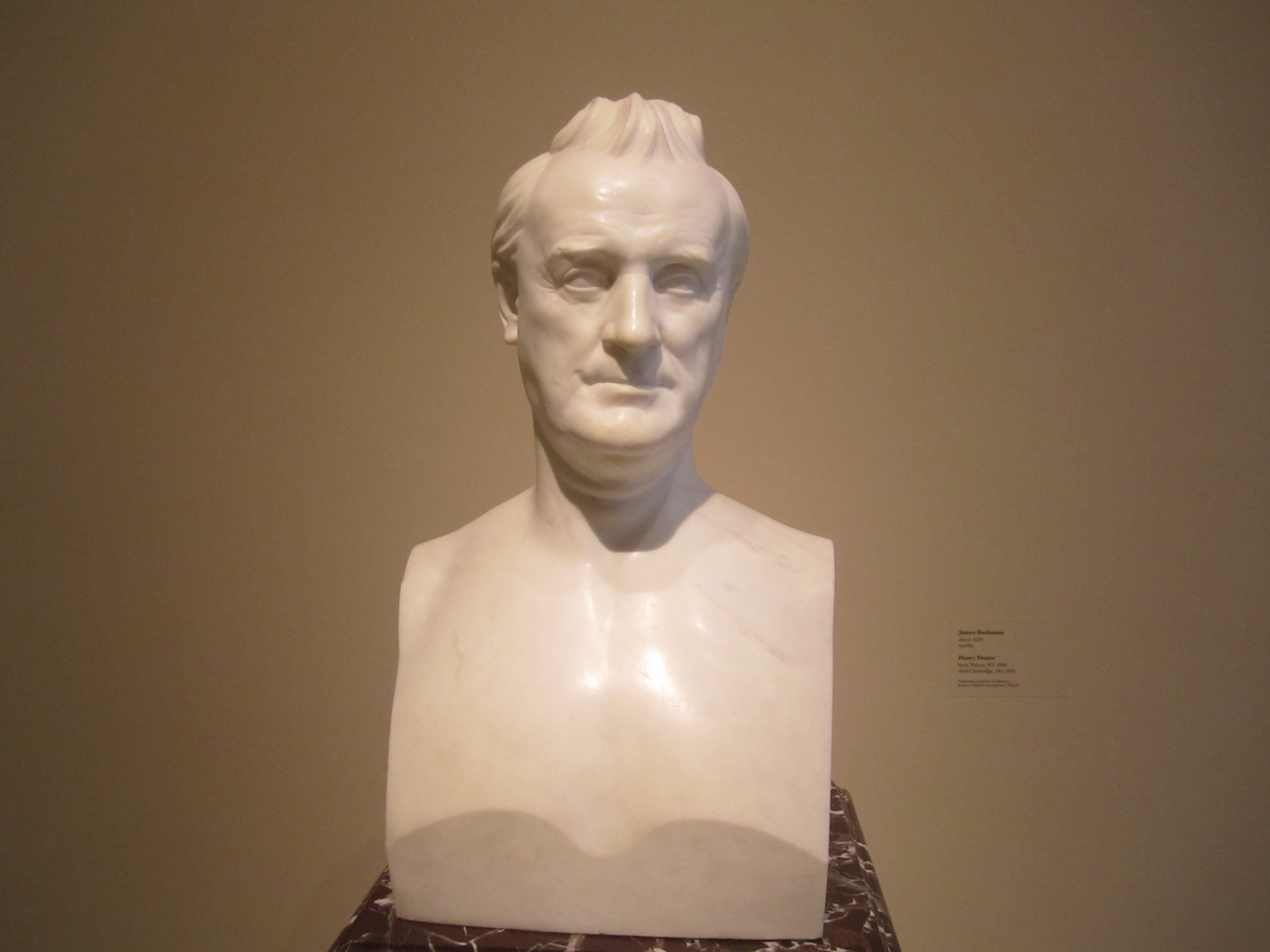 I took photo with Canon camera at National Portrait Gallery in Washington, D.C. Public domain.